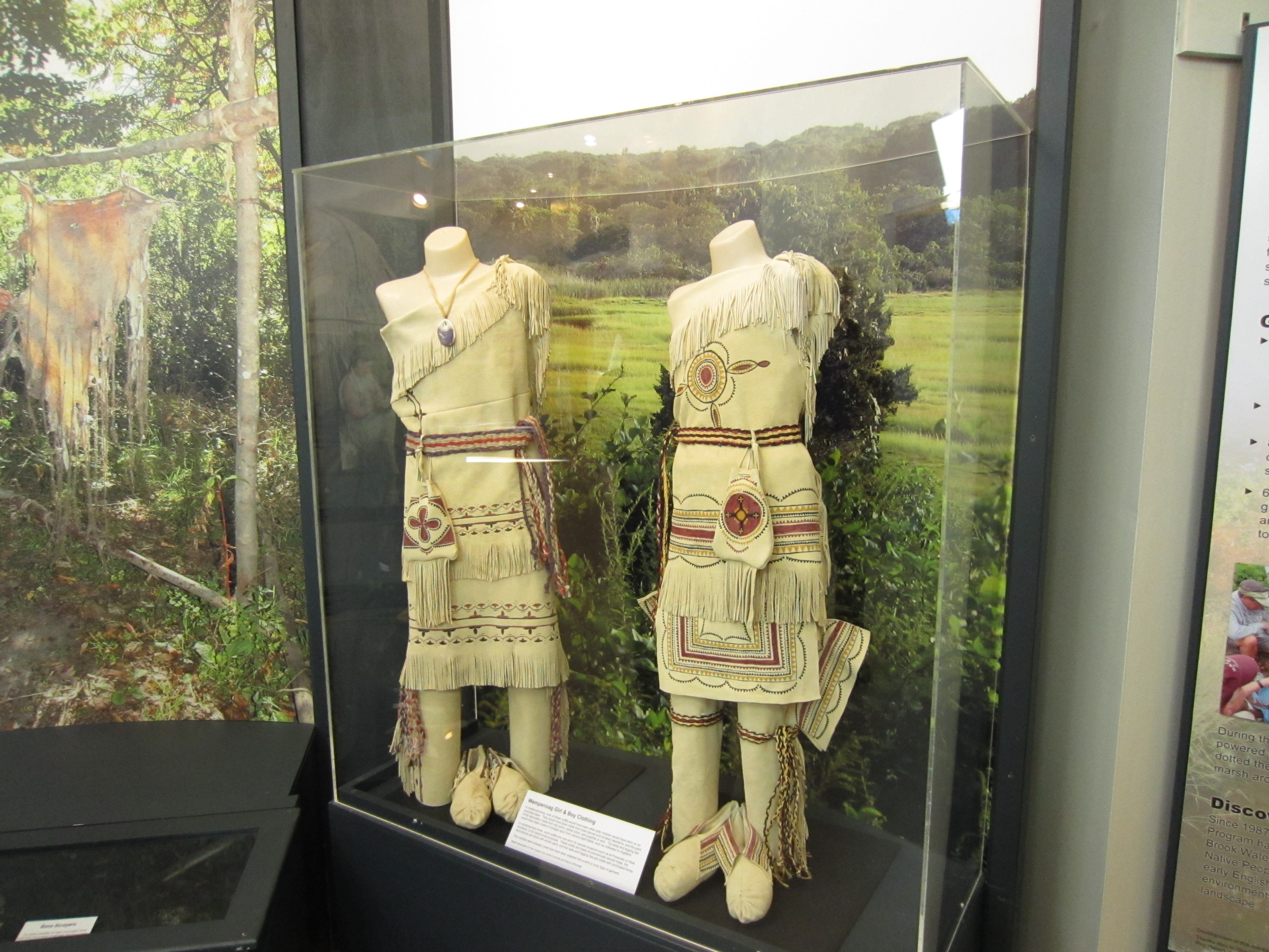 Wampanoag boy and girl clothing at the exhibition of Cape Cod Museum of Natural History, Brewster, Massachusetts